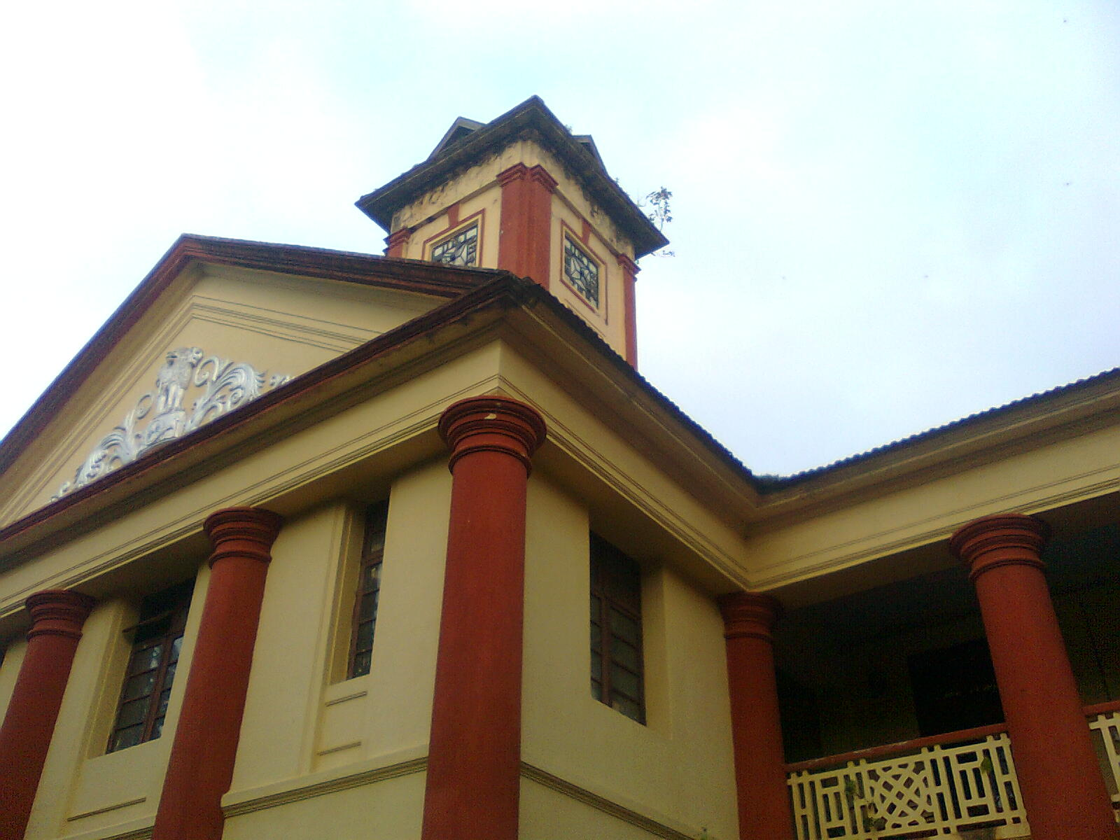 Victoria College Buildings